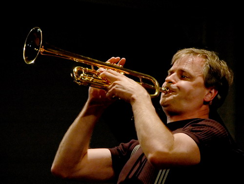 Jens Lindemann at the Ottawa Chamber Music Festival 2006. Copyright 2006 by Mike Heffernan. Used with Permission by